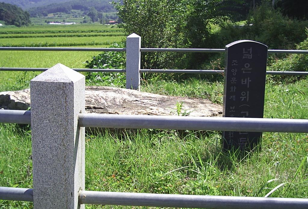 Dolmen in Hongseong, Chungcheongnam-do(South Chungcheong), South Korea